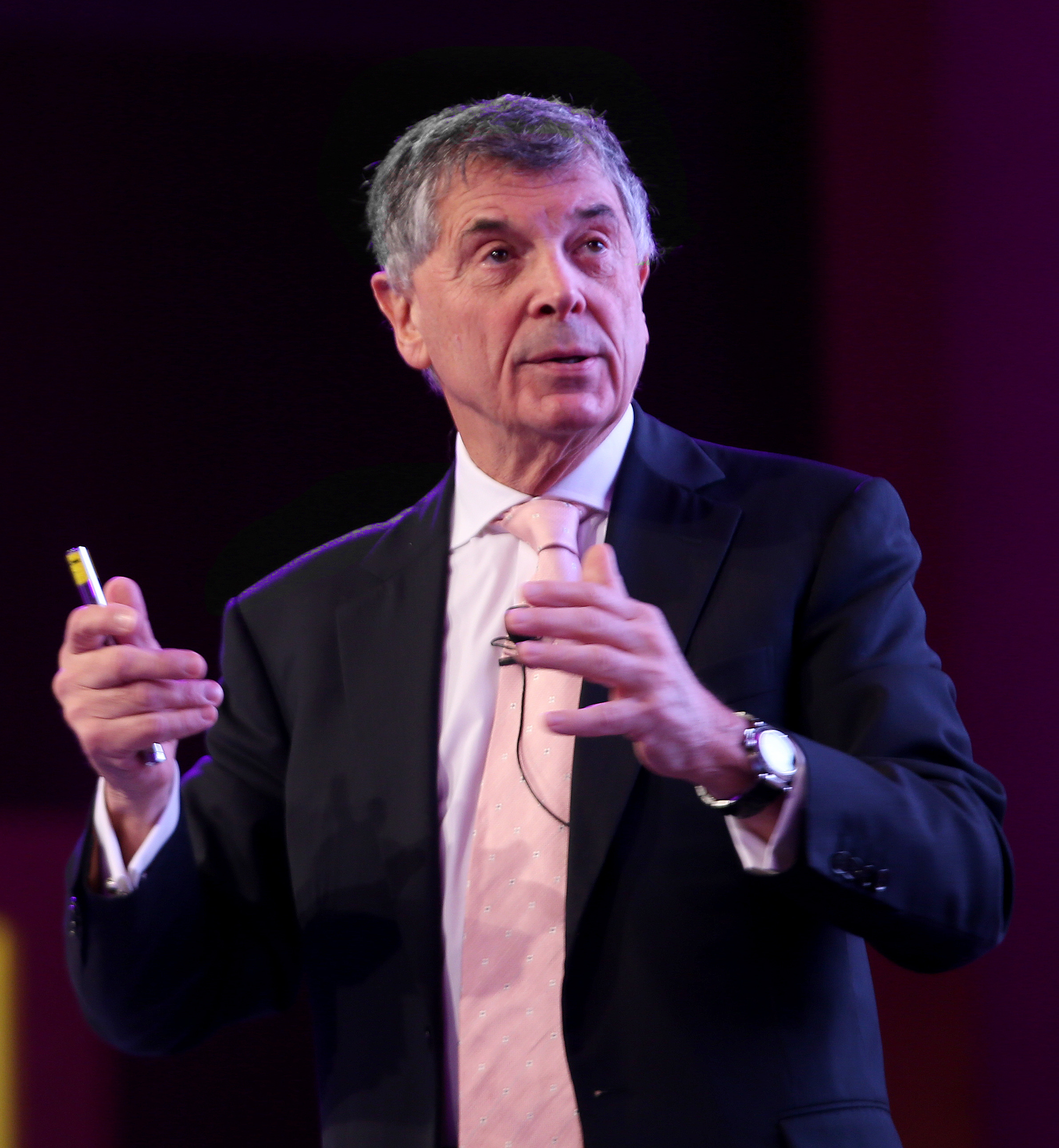 Former England FA and Arsenal vice-chairman David Dein speaks at the Soccerex Asian Forum in Doha. Doha Stadium Plus/K Mohan